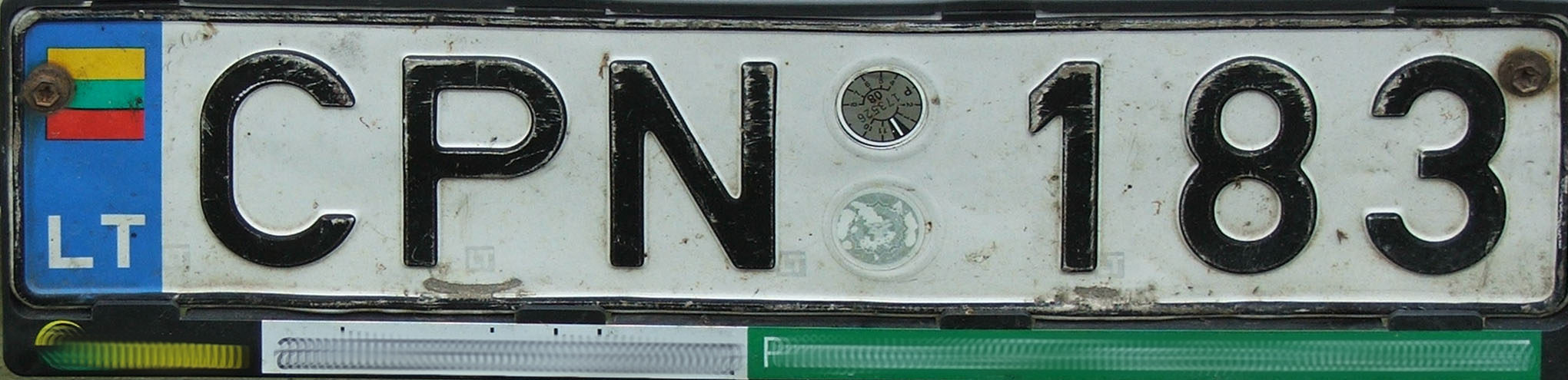 Old vehicle licence plate from Lithuania- before accession of Lithuania to the E.U.